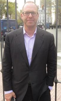 Photo of Scott Sanders, American producer of film and theater. Other information Scott Sanders' permission for this to be used in its entirety by Wikipedia has been forwarded to